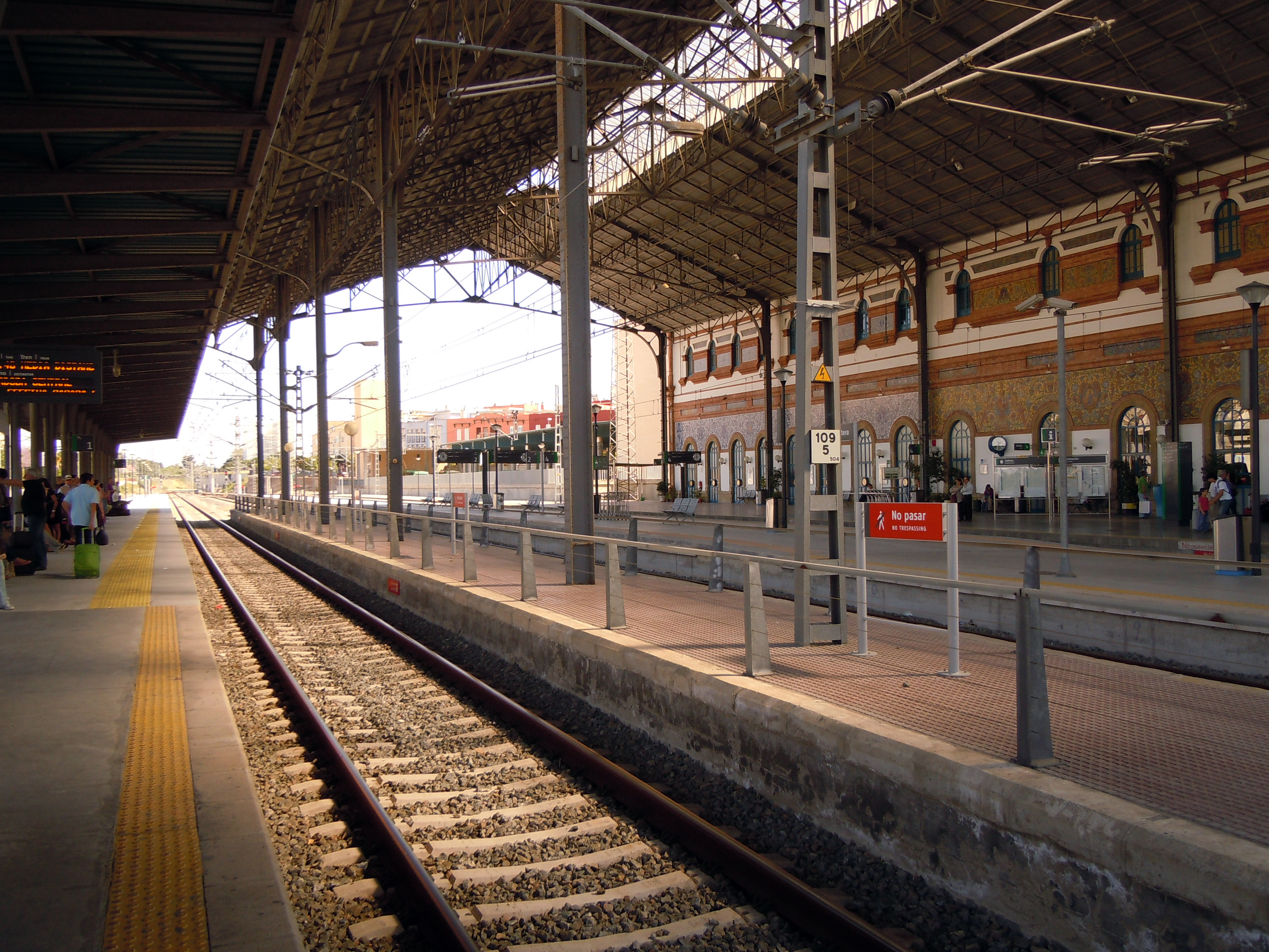 Jerez de la Frontera train station